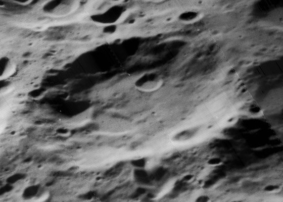 Oblique view of Mechnikov, on the far side of the moon, facing west. Dark diagonal lines are artifacts of reprocessing.